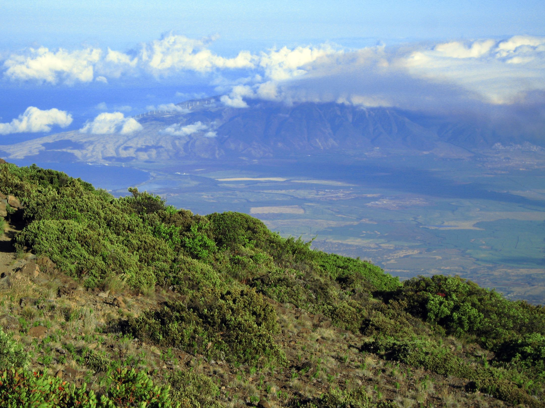 About 7,000' in elevation. You can see most of Maui from here.